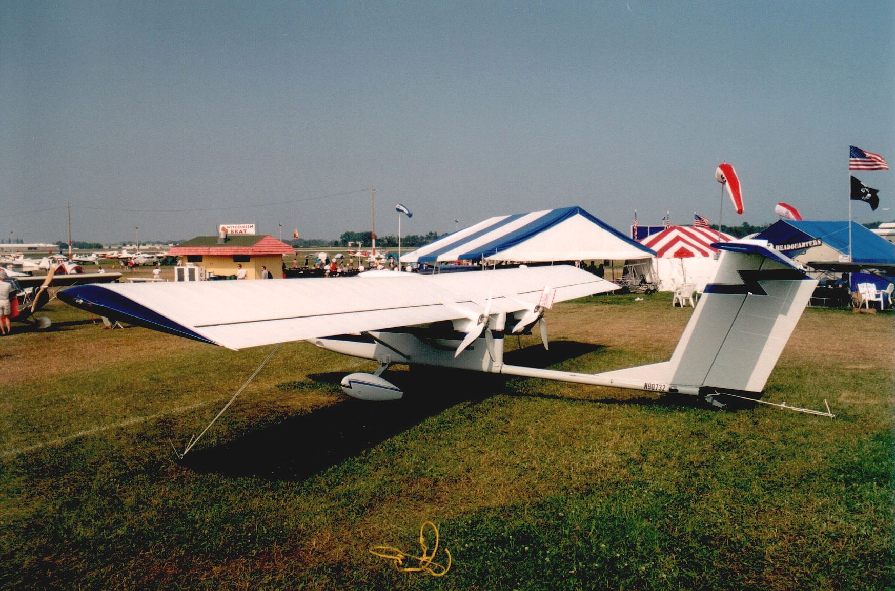 Aeroprakt A-26 Vulcan at AirVenture, Oshkosh 2001